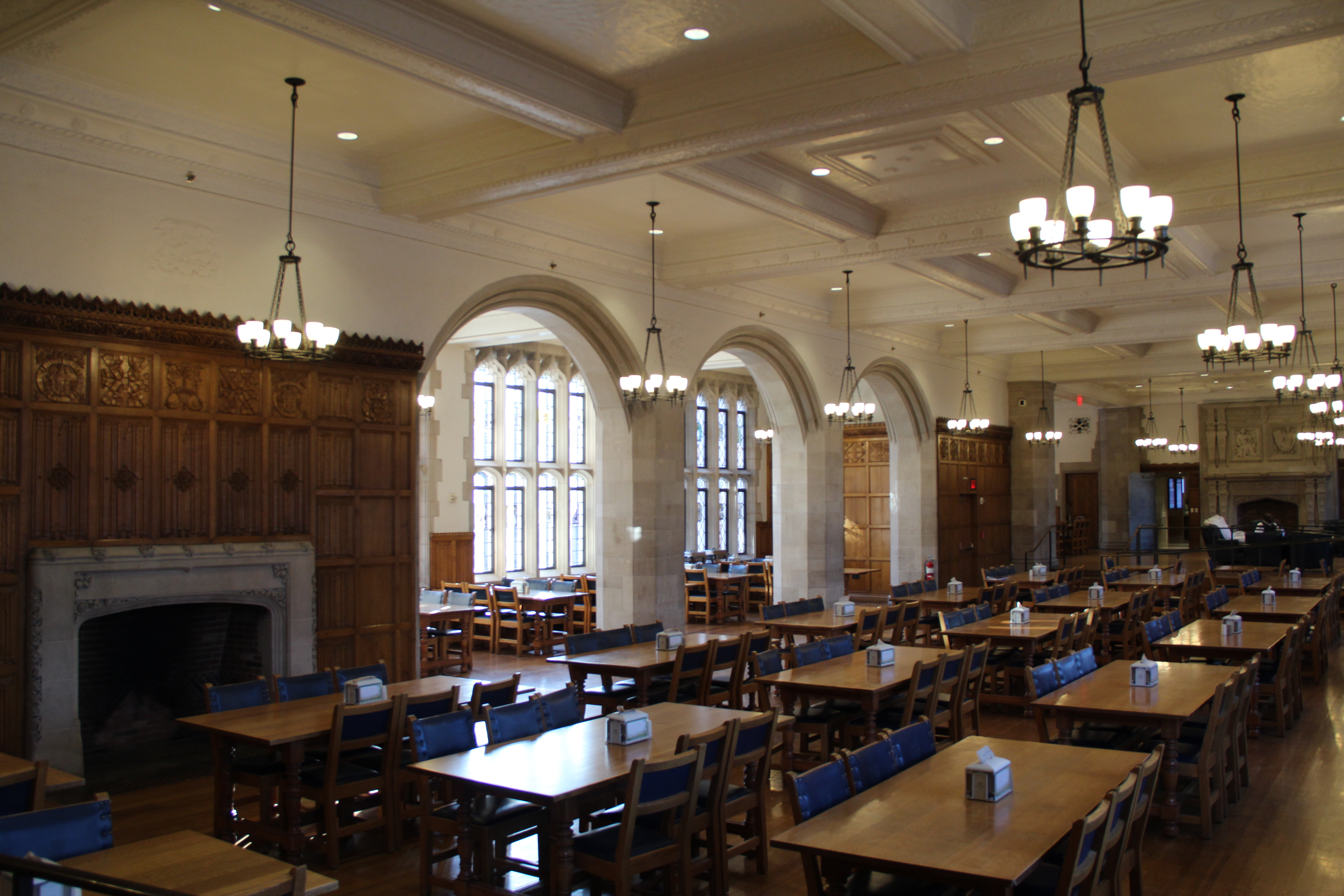 Dining hall of the Yale Law School, designed by James Gamble Rogers, Yale University, New Haven, CT